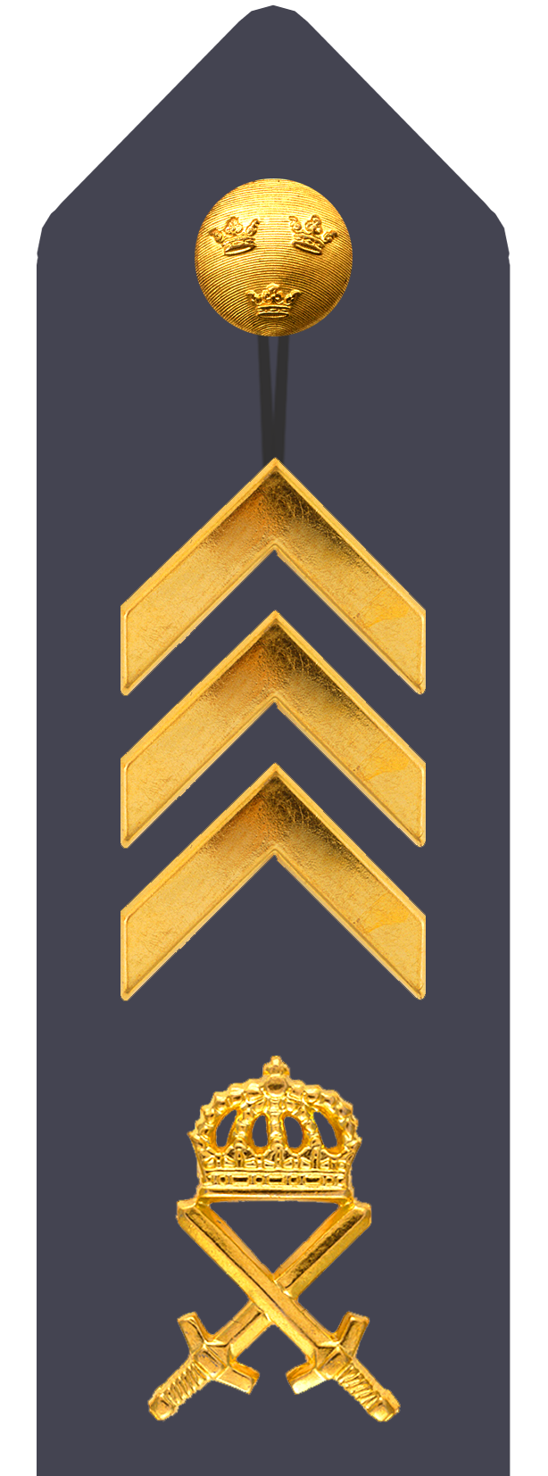 Insignia for Sergeant (OR-5) in the Swedish Army. Uniform m/87.